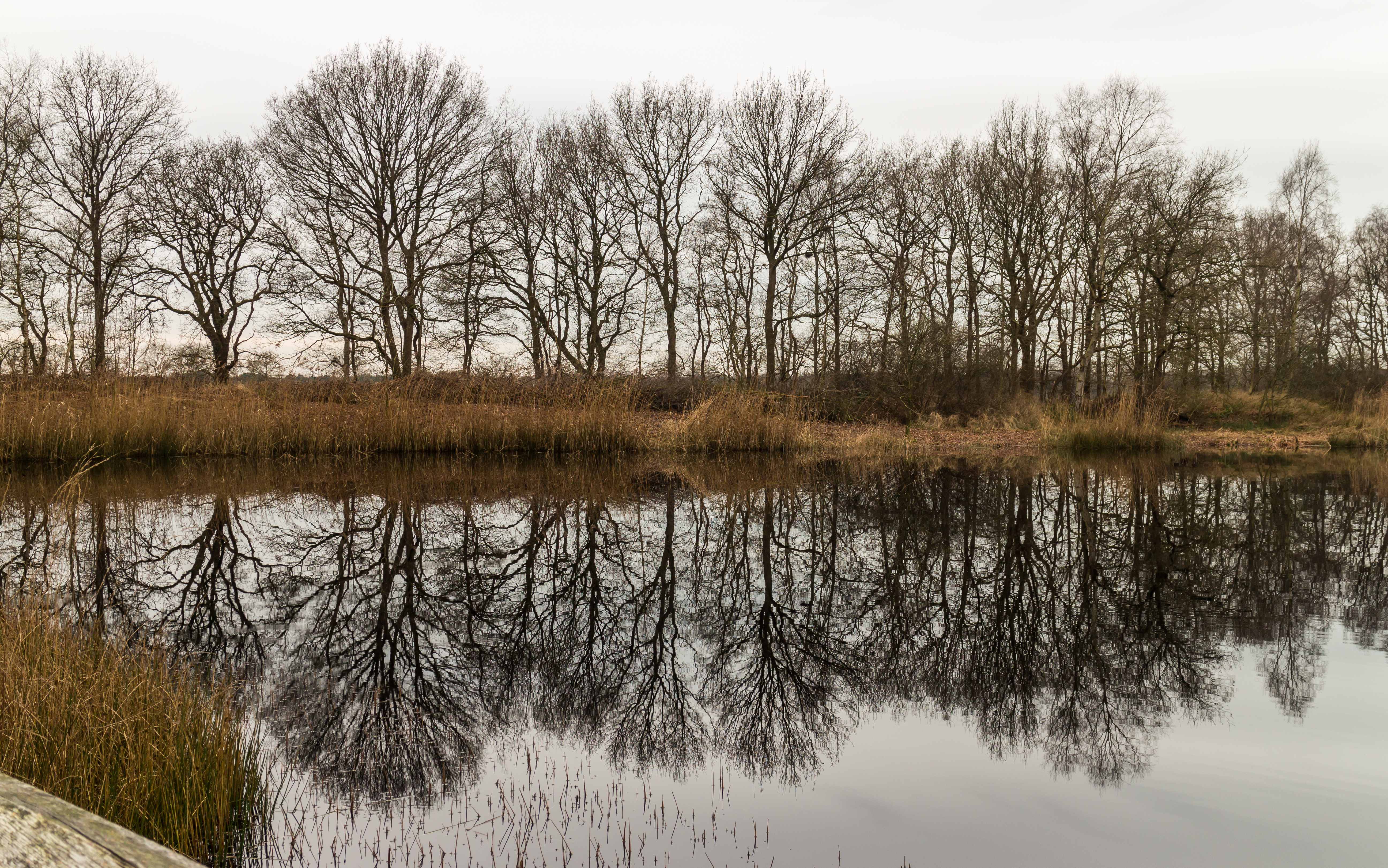 Delleboersterheide – Catspoele Nature of It Fryske Gea. Location, Catspoele.